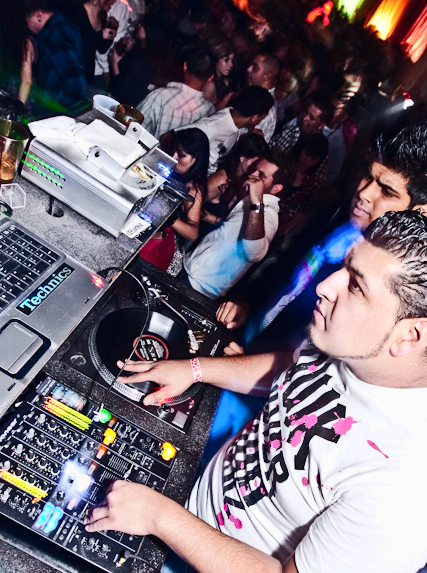 a club disc jockey ( DJ ) known as " DJ 2CAN " spins at a local club in the Inland Empire of California.